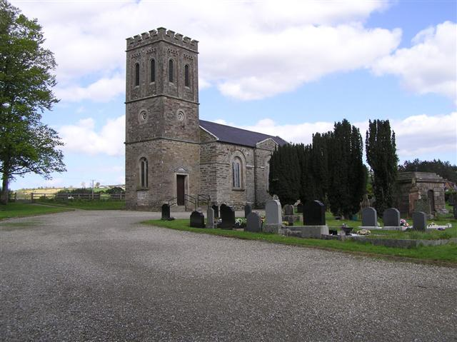 Cumber Church of Ireland Derry & Raphoe is the Diocese which Cumber parish is in.